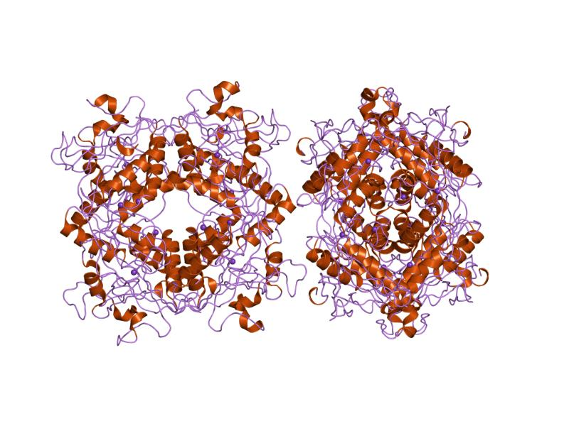 Cartoon representation of the molecular structure of protein registered with 1m5h code.